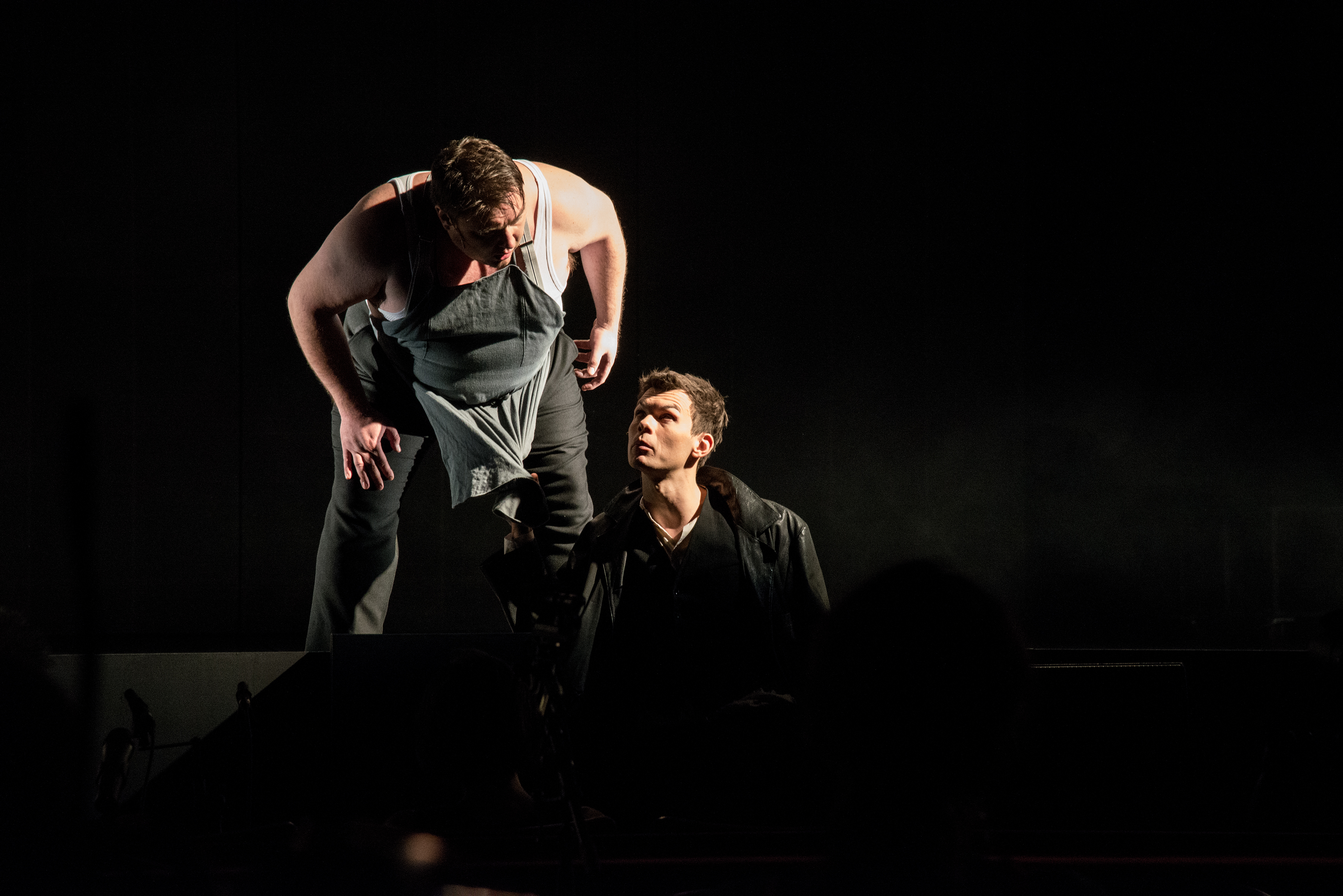 Die letzten Tage der Menschheit, Salzburger Festspiele 2014, Christoph Krutzler & Sven Dolinski